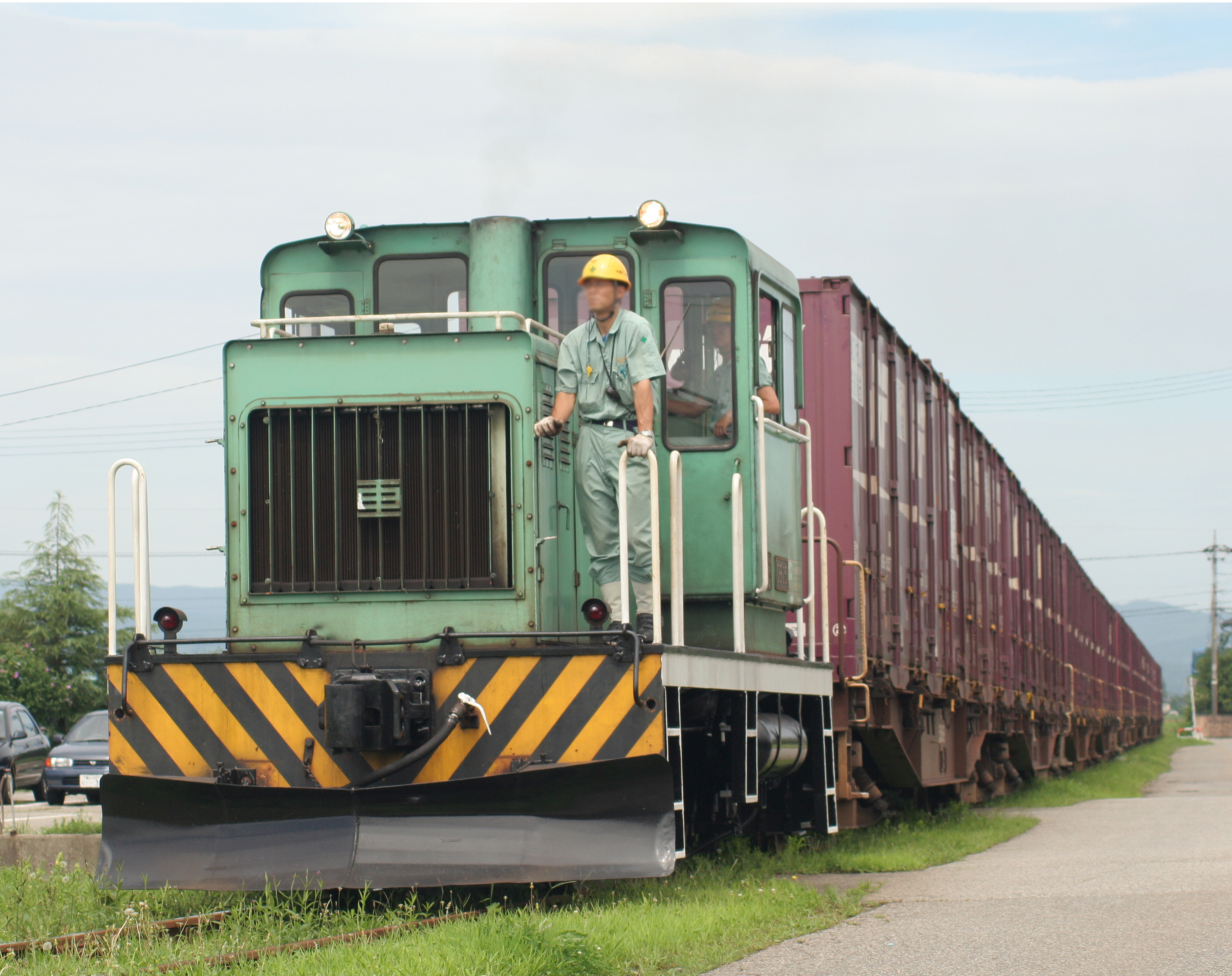 Railway line for Chuetsu Pulp & Paper Co., Ltd. Near Futatsuka Station